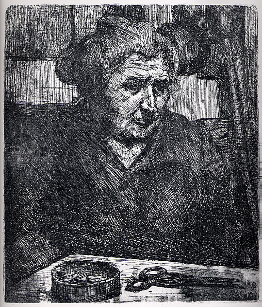 Print; Prints